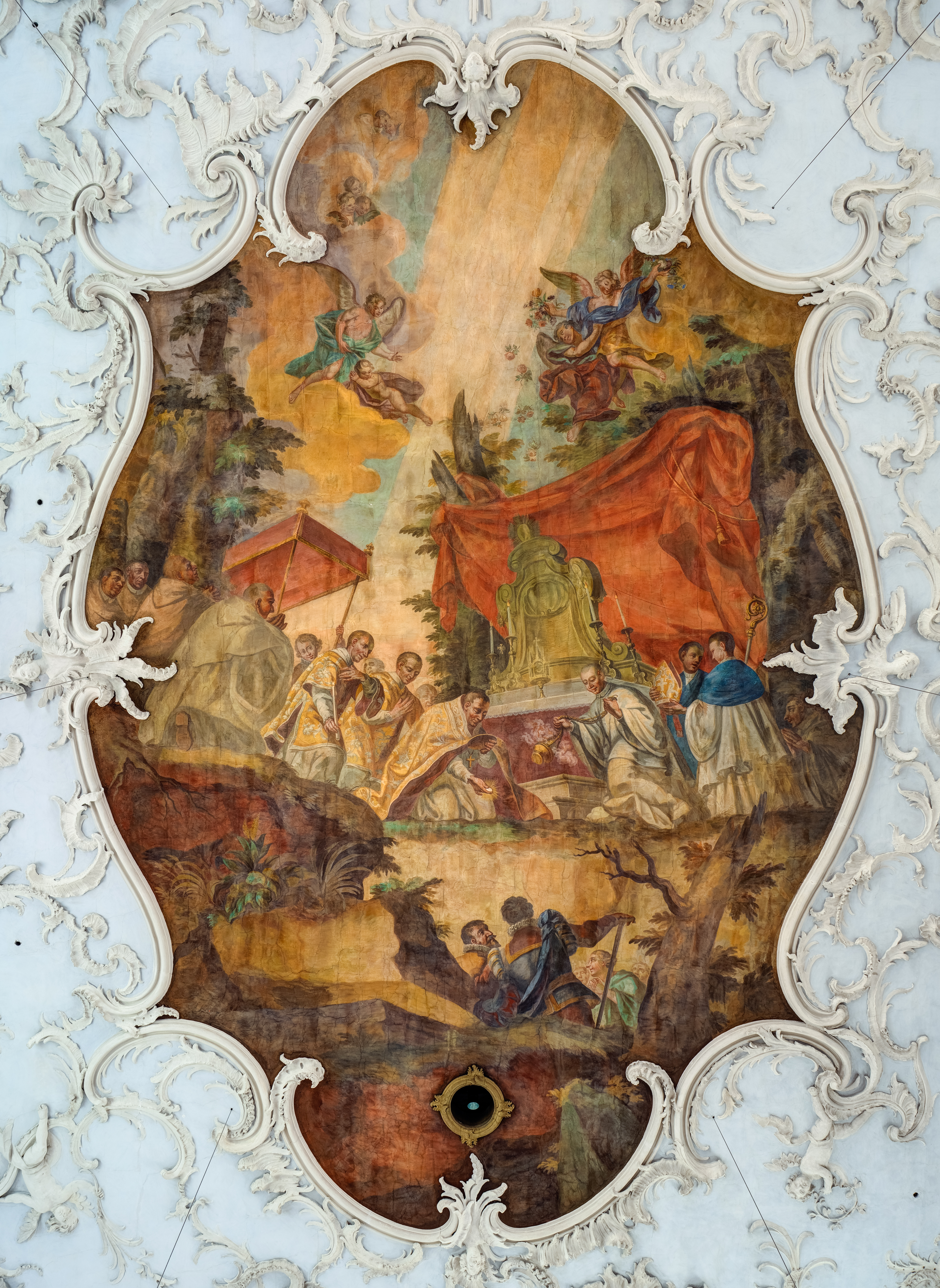 Ceiling fresco, created by Anton Clemens Lünenschloß 1748 - 1751, in the Catholic parish church St. James the Elder in Burgwindheim